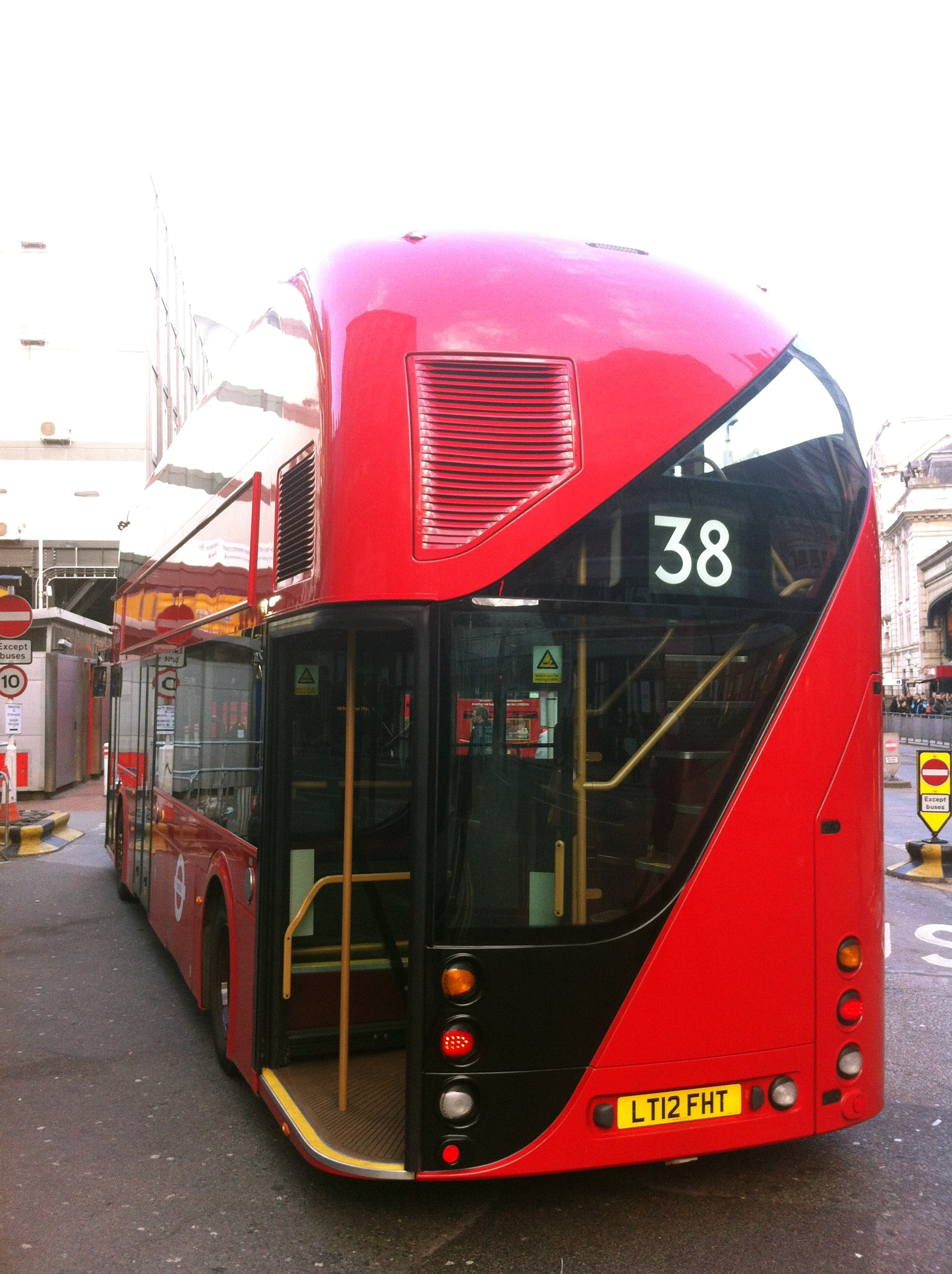 back of a new routemaster 38